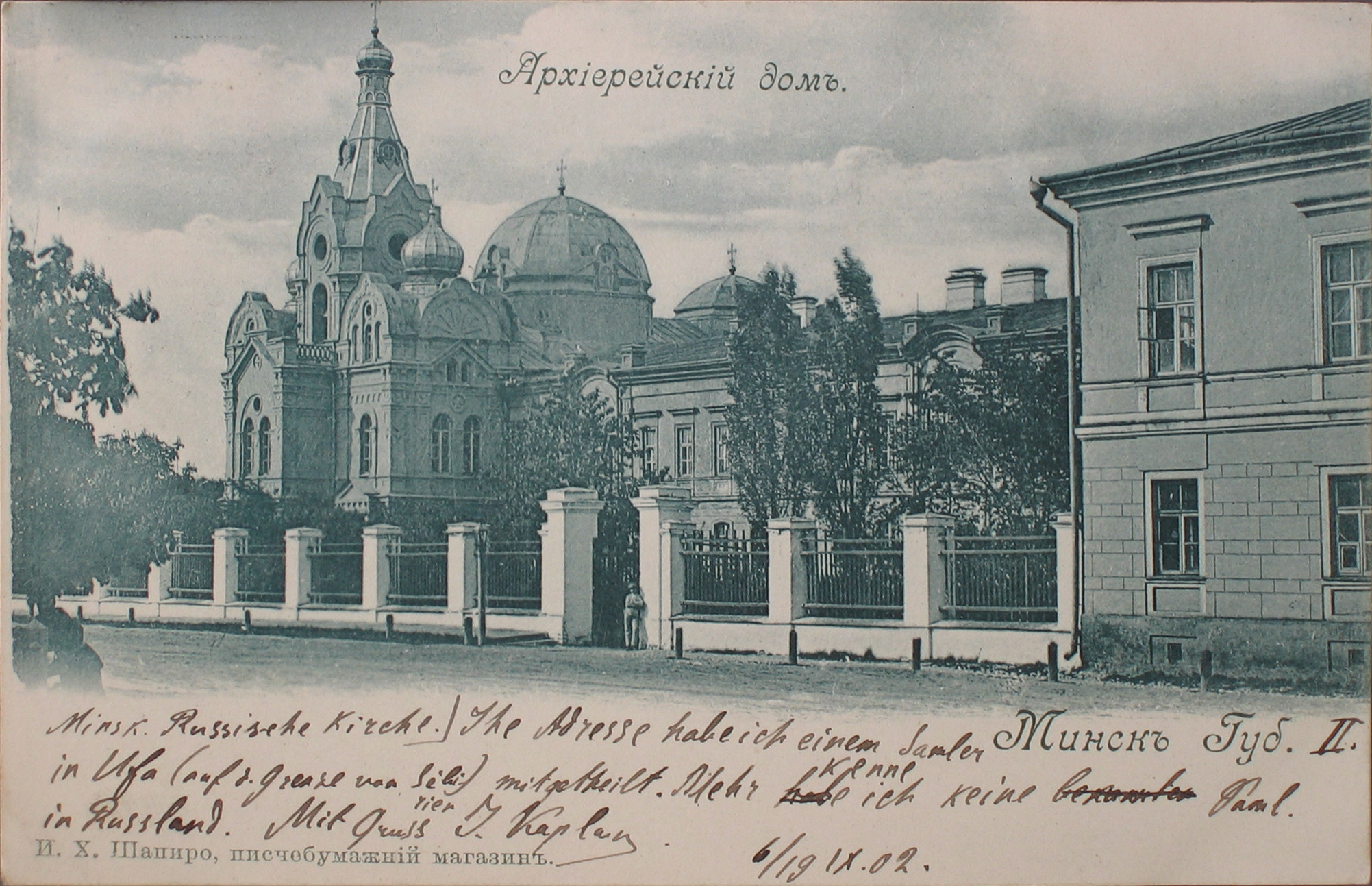 Conventual Church and House in Miensk